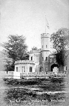 Early 1900s postcard of Fort Belvedere, a 19th century Gothic Revival style residence in Windsor Great Park, Surrey. The site of the 1936 signing of the instrument of abdication of Edward VIII of the United Kingdom.